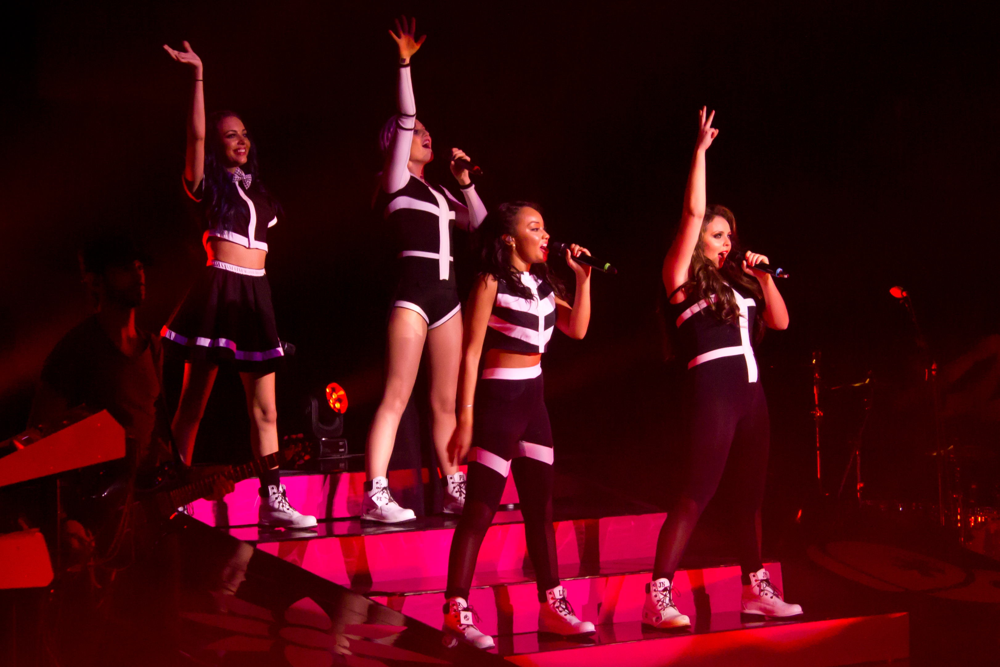 Little Mix